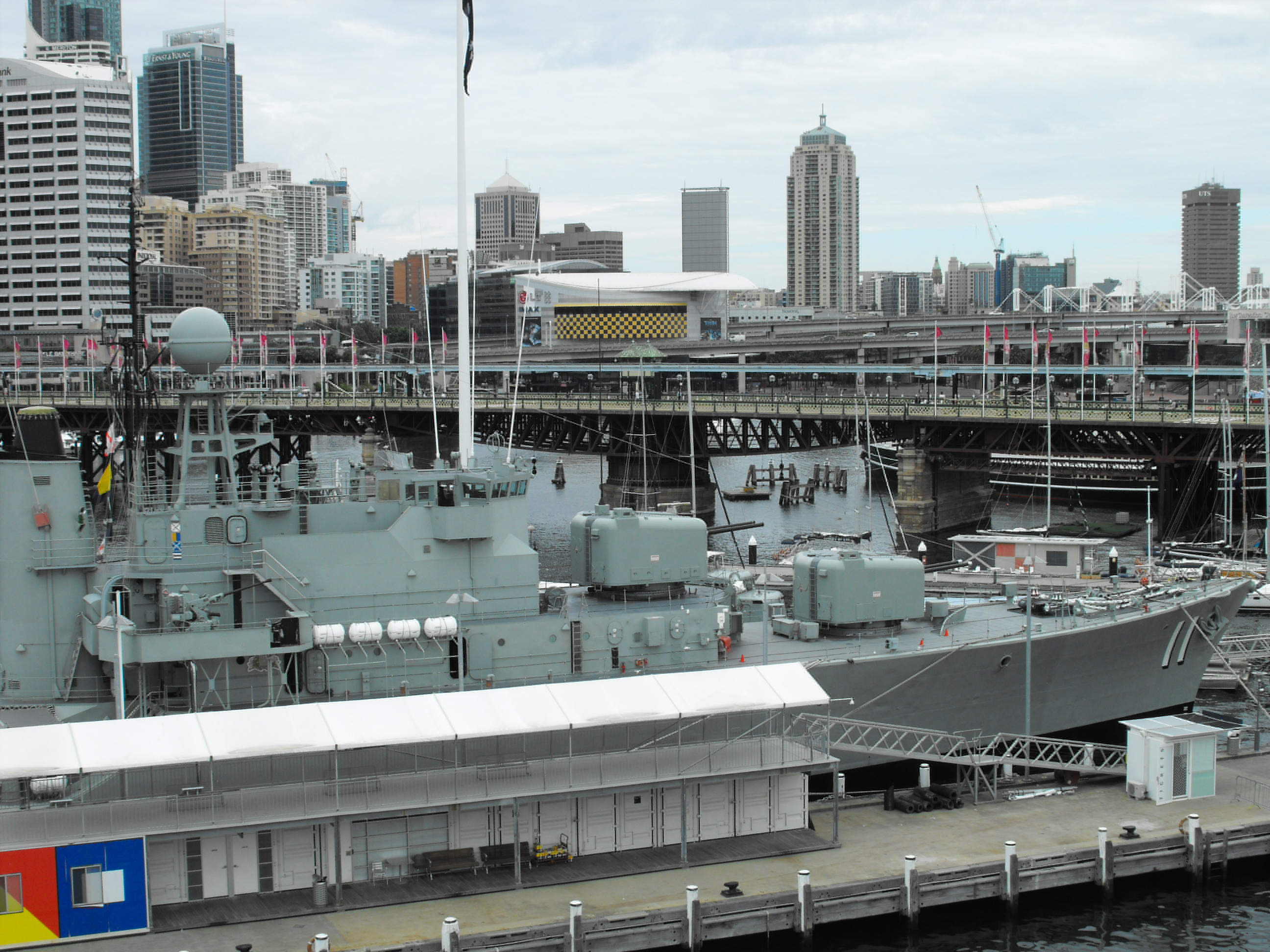 Forward half of the destroyer HMAS Vampire, on display at the Australian National Maritime Museum. Two of the ship's three dual 4.5 inch gun turrets can be seen, along with a single 40 mm Bofors gun (near the left edge of the photograph)